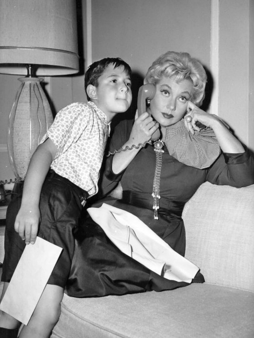 Photo of Ann Sothern and Barry Gordon from the television program The Ann Southern Show. Gordon guest stars as a mischief-making young boy Katy has to watch for the day.